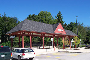 The Amtrak station in Exeter, New Hampshire.